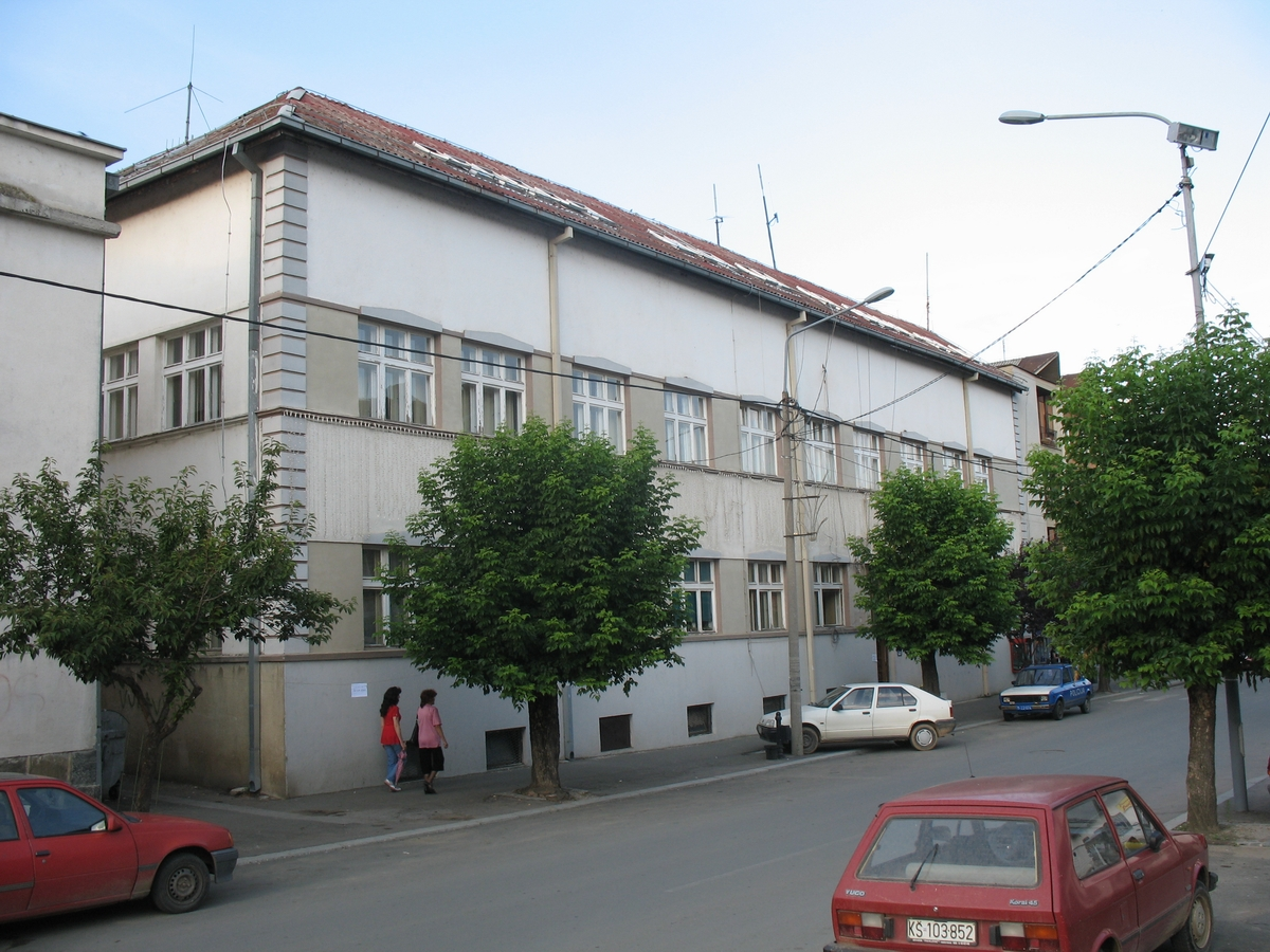 Seat of municipality of Brus (Opštinsko načelstvo) in Brus, Serbia.